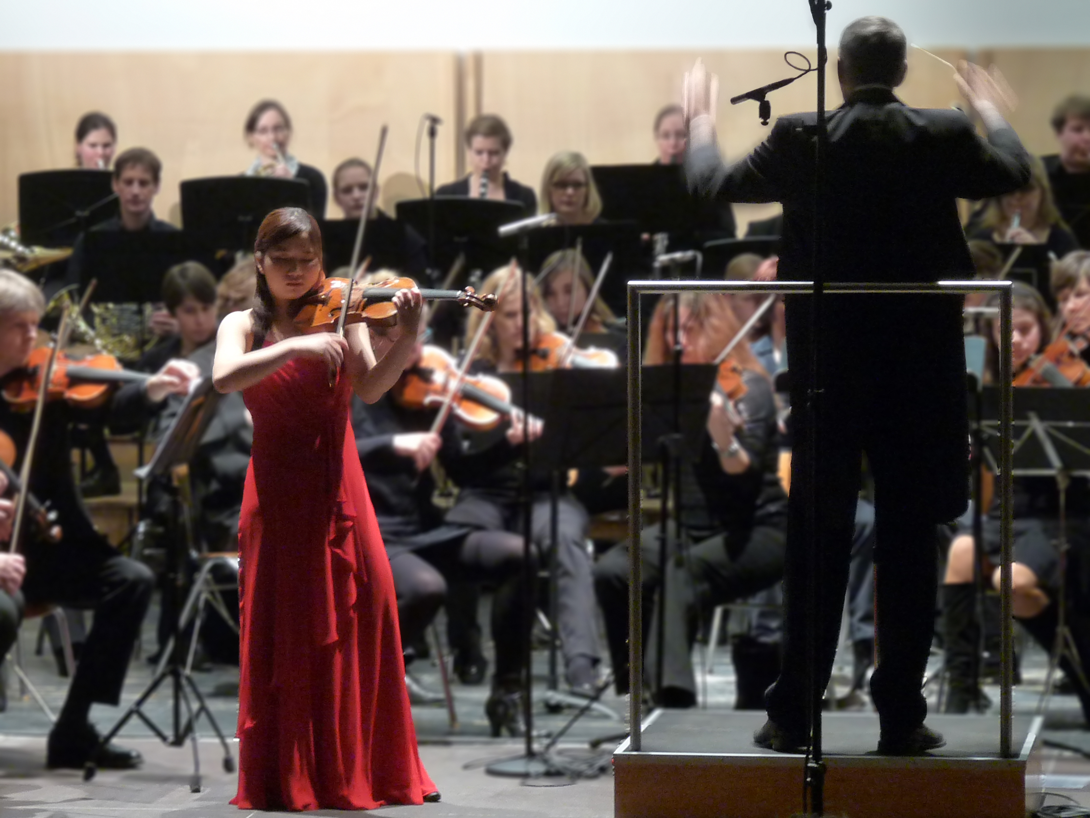 Japanese violinist Airi Suzuki with Junges Sinfonieorchester Münster (Germany)